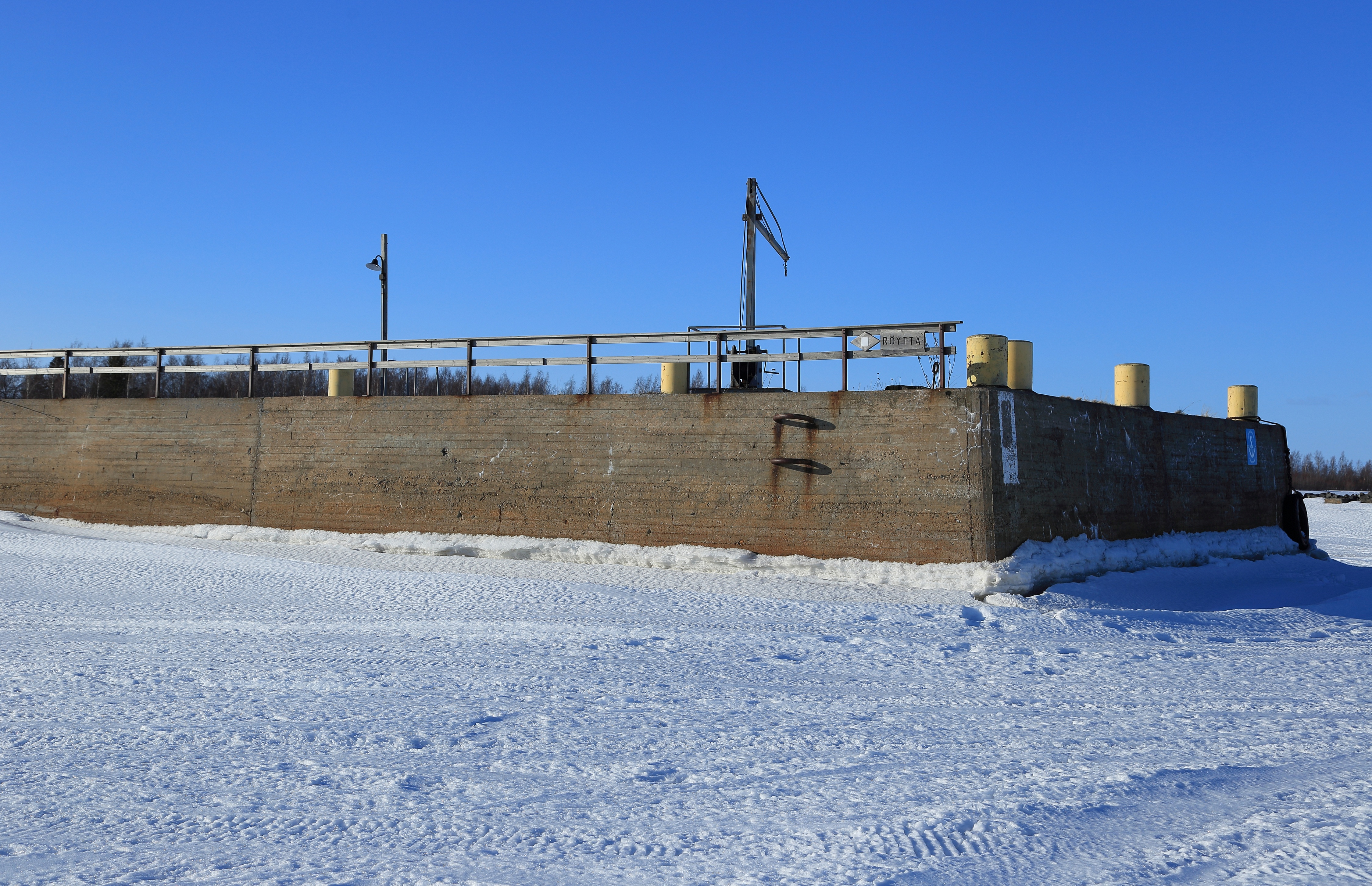 Pier of the marina in the Röyttä island in Ii, Finland.